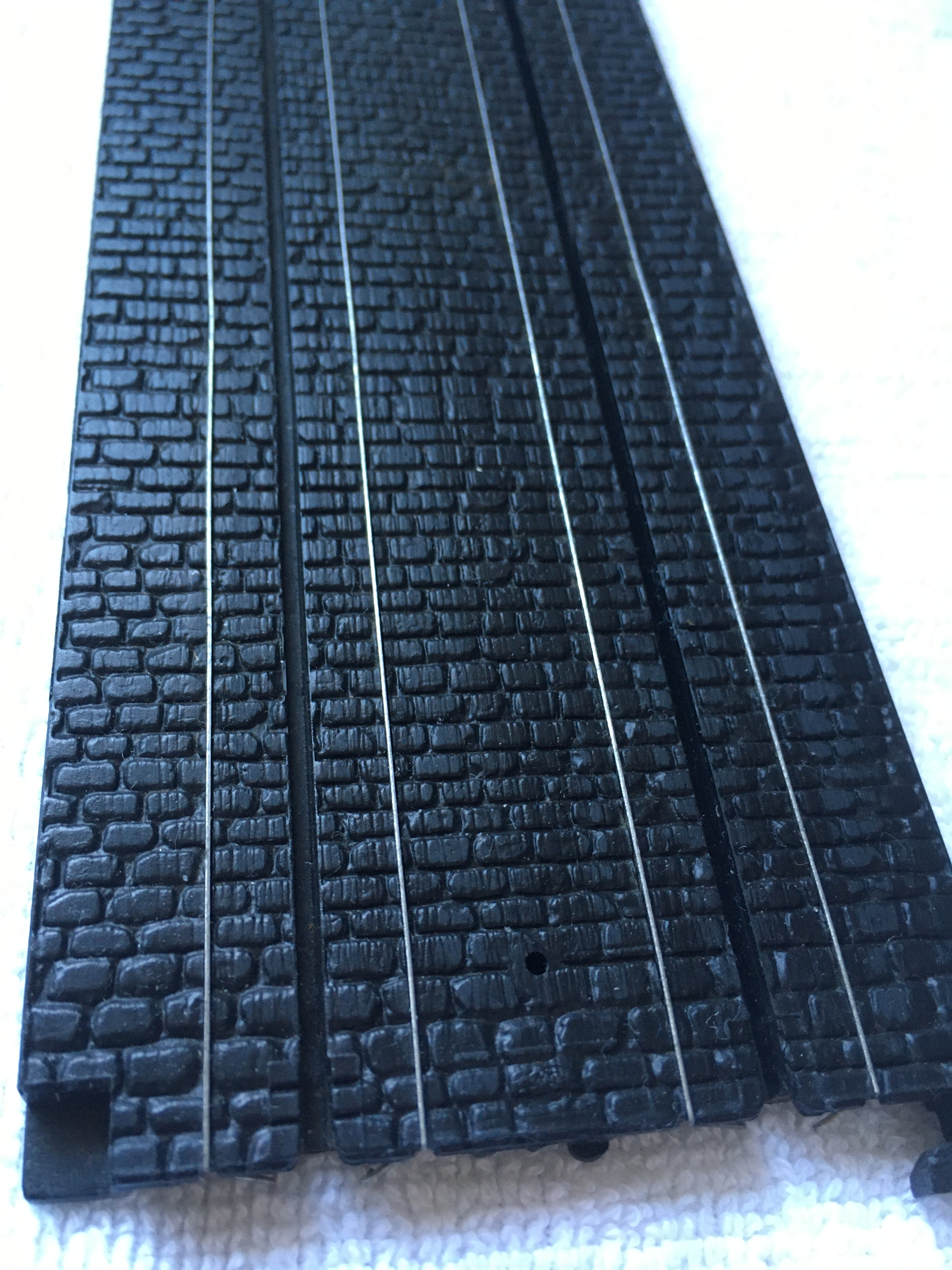 AFX 9" "Cobblestone" Track